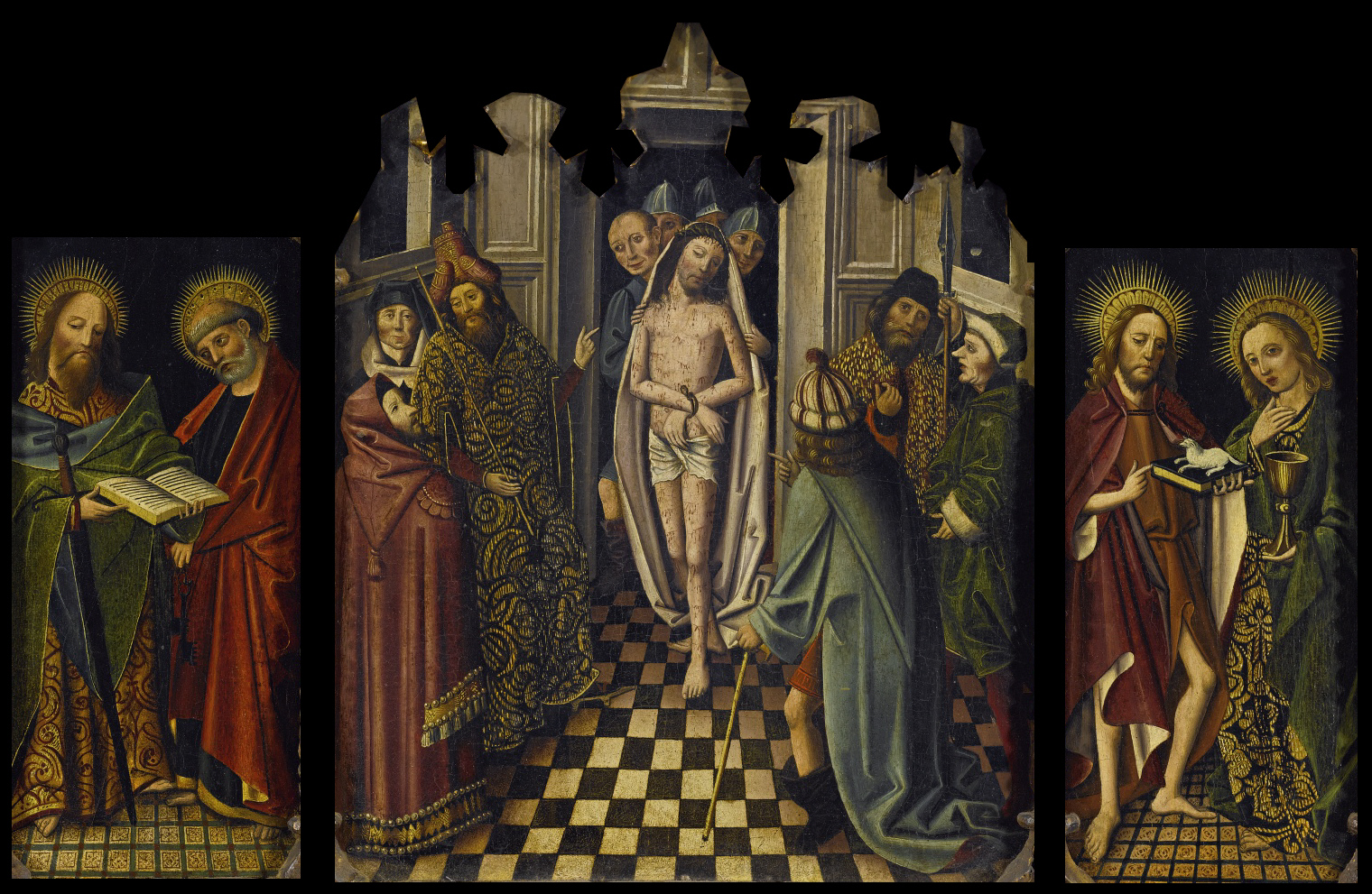 A triptych with Christ before Pilate, with Saints Paul, Peter, John the Baptist and John the Evangelist oil on panel, gold ground, in engaged frames; central panel: 64.1 by 47.6 cm; wings: 64.1 by 22.5 cm (elaborate frame cropped for copyright reasons) Provenance: Don Luis Ruiz, Madrid, until 1936 His sale, New York, American Art Association-Anderson Galleries, 2 May 1936, lot 76, for $410 (as Spanish School with Flemish influence) Dr. Foo Chu and Dr. Marguerite Hainje-Chu, Tarrytown, New York By whom donated in 1982 to The Metropolitan Museum of Art, inv. no. 1982.447 Sold by the Metropolitan Museum of Art at a Sotheby's Auction, New York 2013